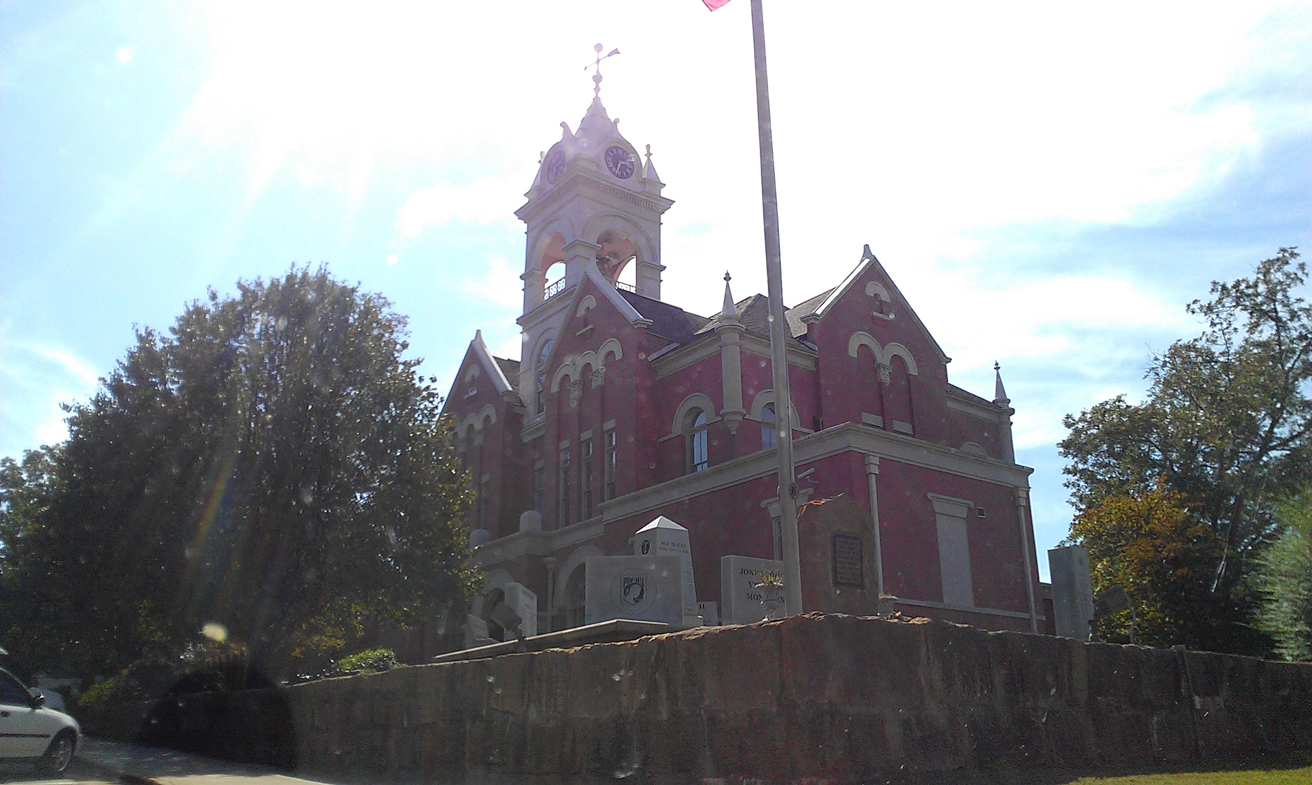 Jones County Courthouse